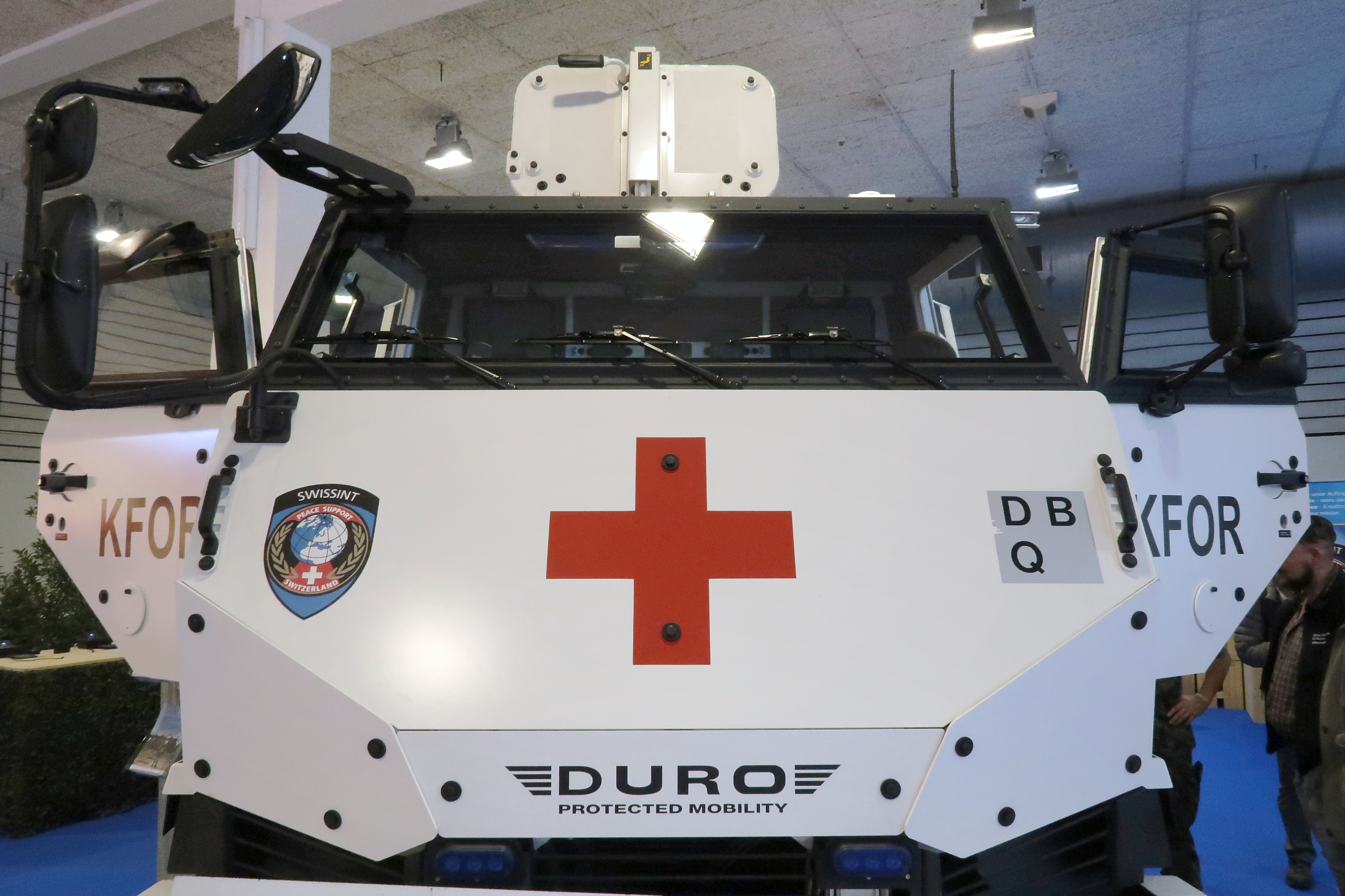 Protected ambulance of the Swiss Kosovo Force. Presentation of the army at the OLMA fair in St. Gallen. Switzerland, Oct 20, 2017. (1/3)